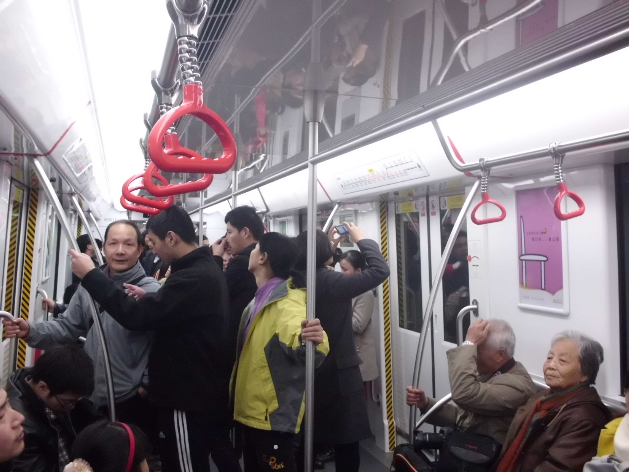 Hangzhou Metro